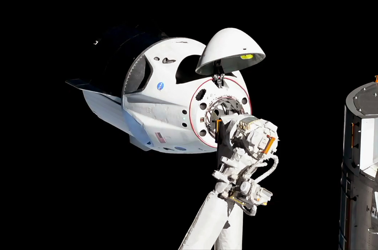 SpaceX's Crew Dragon approaches a docking with the International Space Station at a distance of 65 feet (20 m). Parts of the space station's Canadarm2 robotic arm and Kibo Experiment Logistics Module (Pressurized Section) are seen in the foreground.